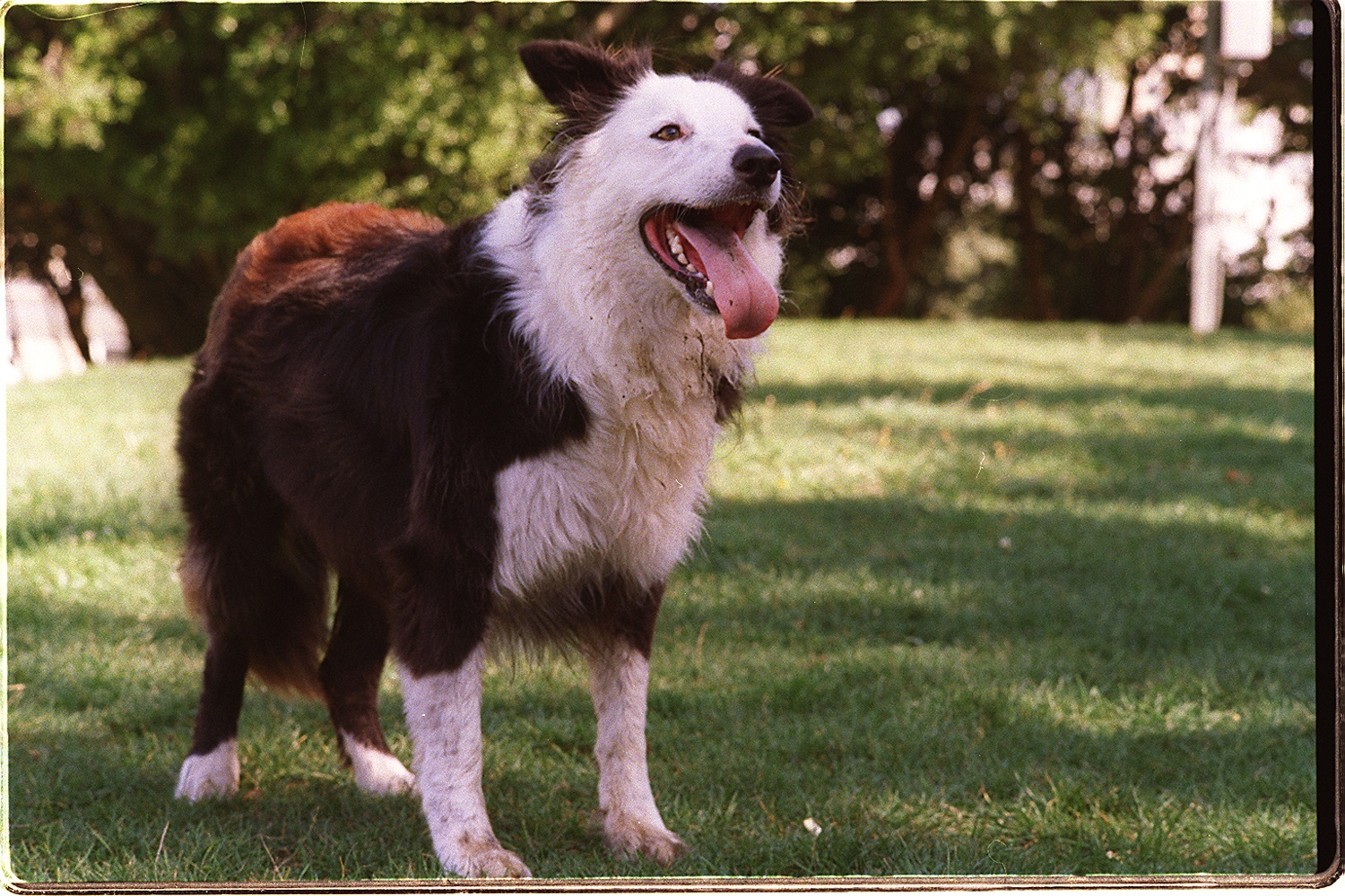 DOG-BORDER2/C/23OCT99/ photo by NANCY WONG BORDER COLLIE DOG AT ALTA VISTA PARK, SAN FRANCISCO, STEINER & JACKSON STREETS